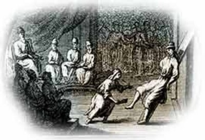 Engraving of a chalitzah ceremony, from an edition of the Mishneh Yevamot, published in Amsterdam ~1700 (see also 1906: ḤALIẒAH („taking off, untying“))